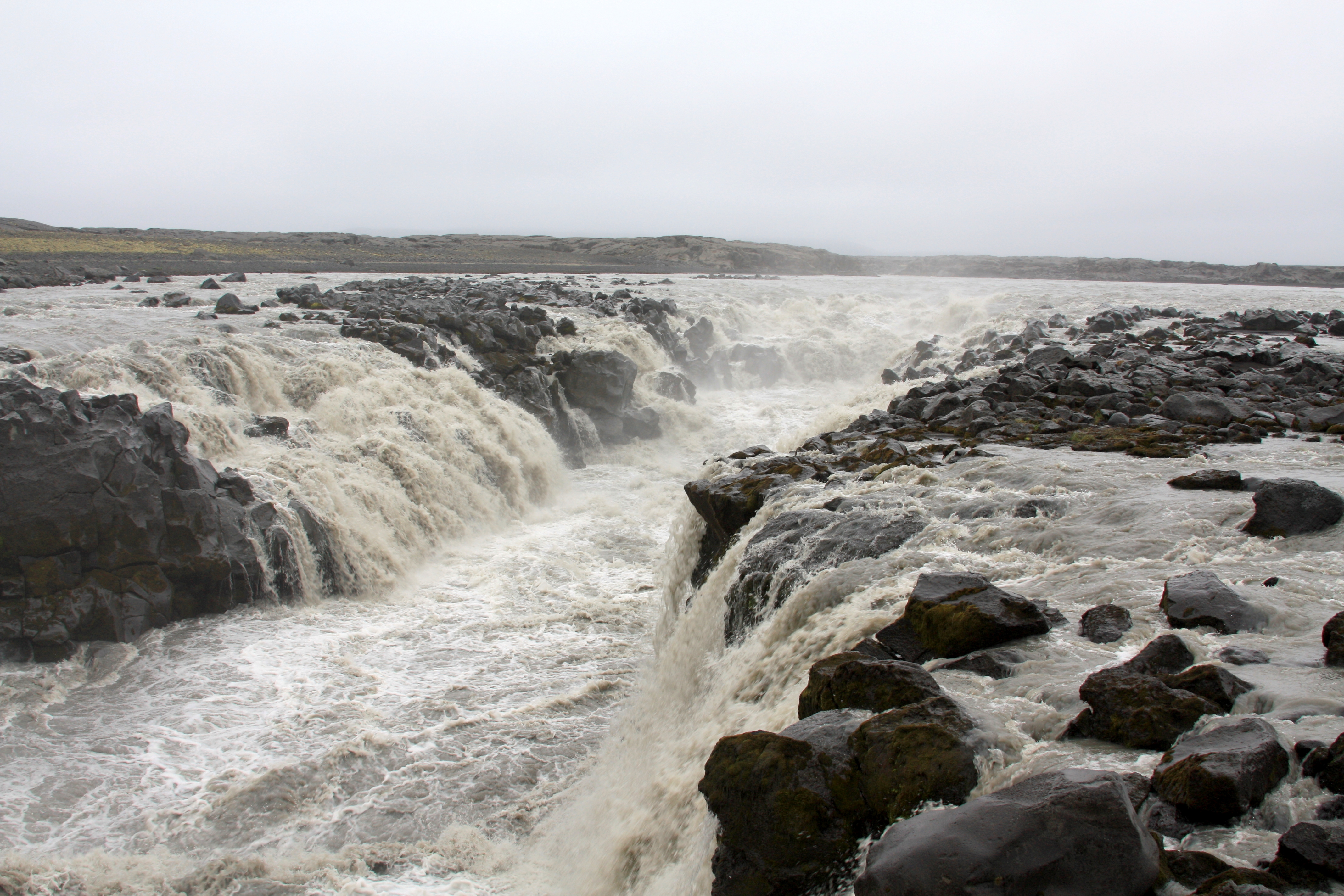 Eastern Region, Iceland